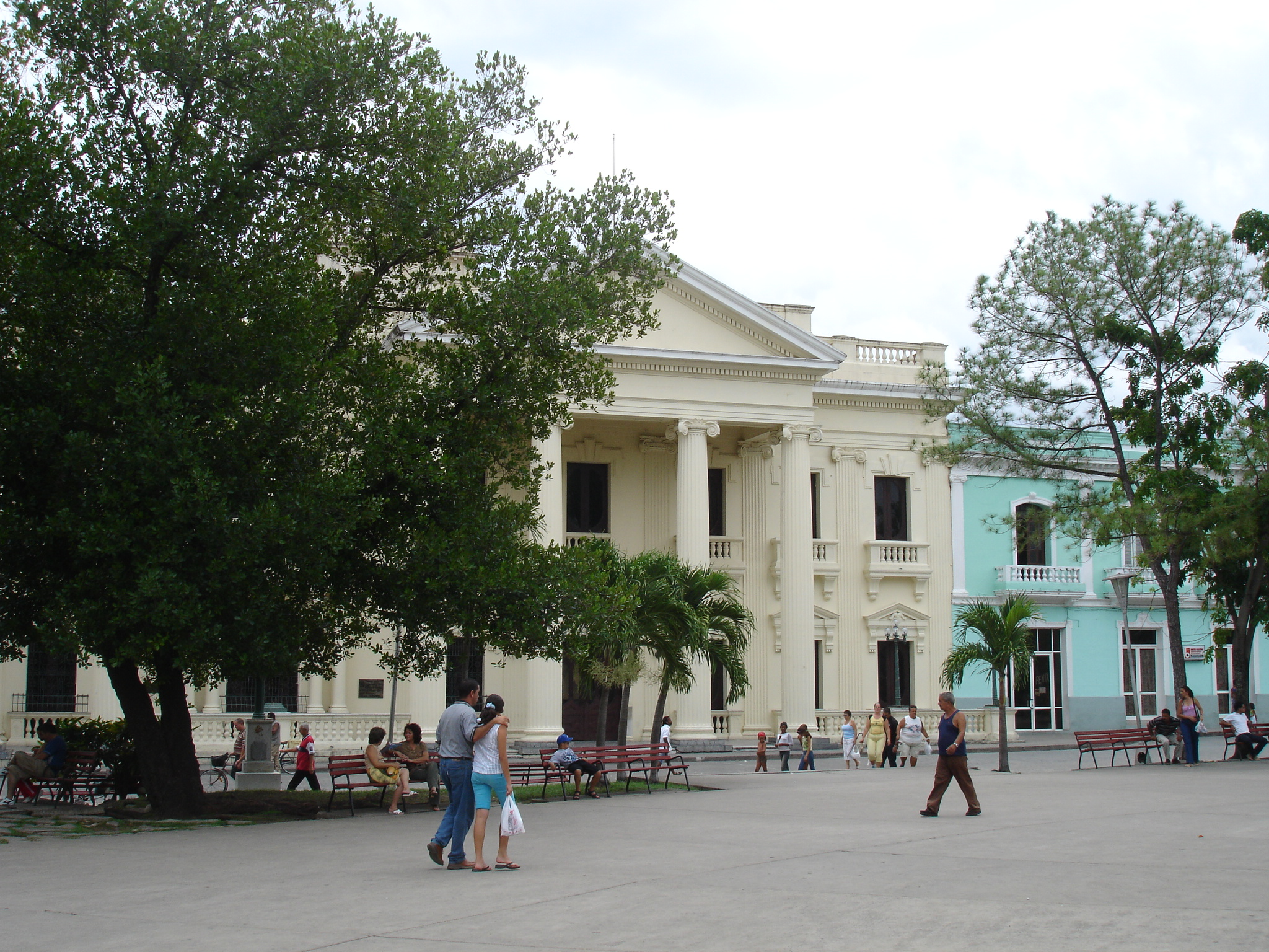 This is a photo of the square in Santa Clara, taken by me, takethemud, in Santa Clara, Cuba, in May 2006.